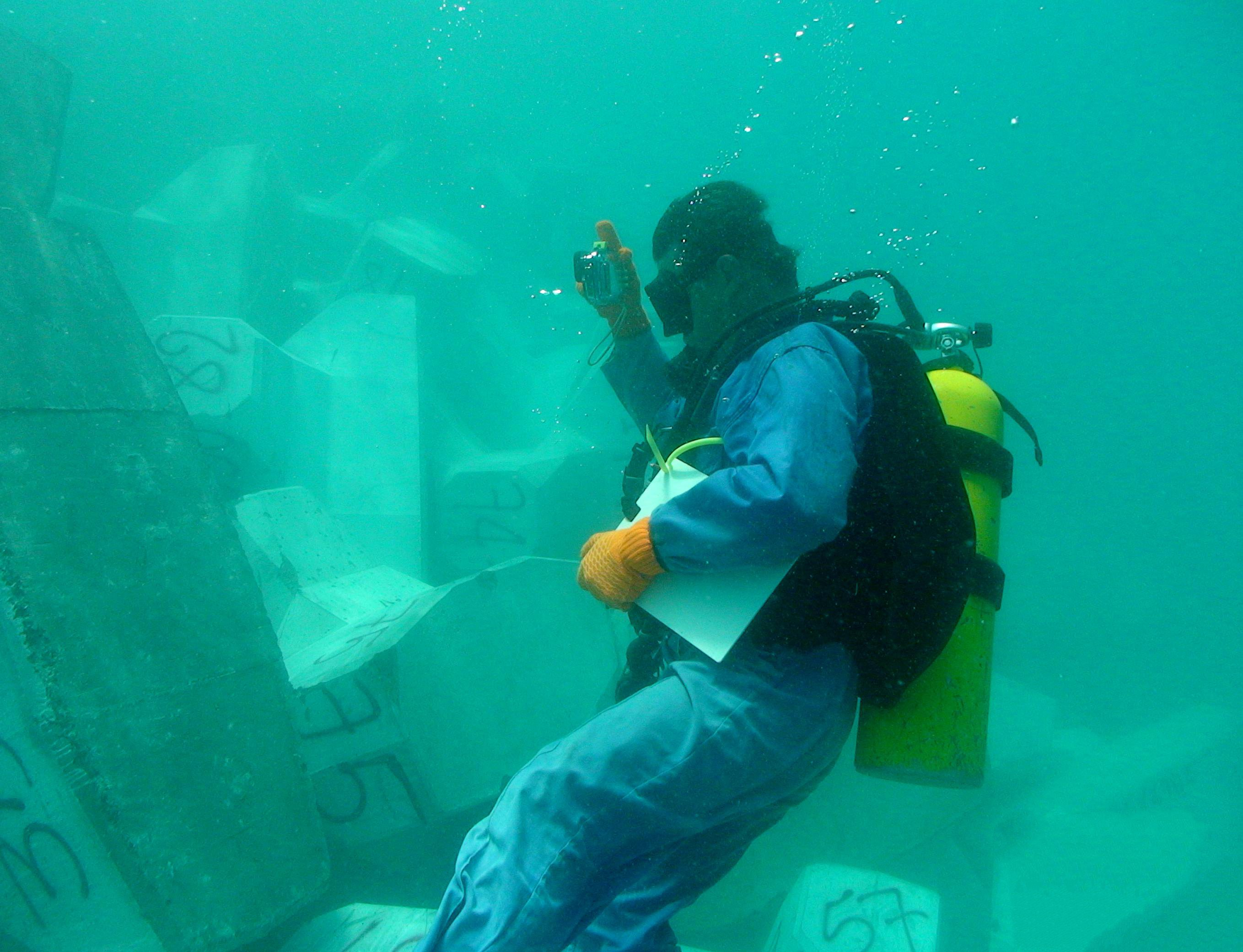 idmer diver